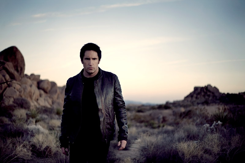 Trent Reznor, February 2008 press photo